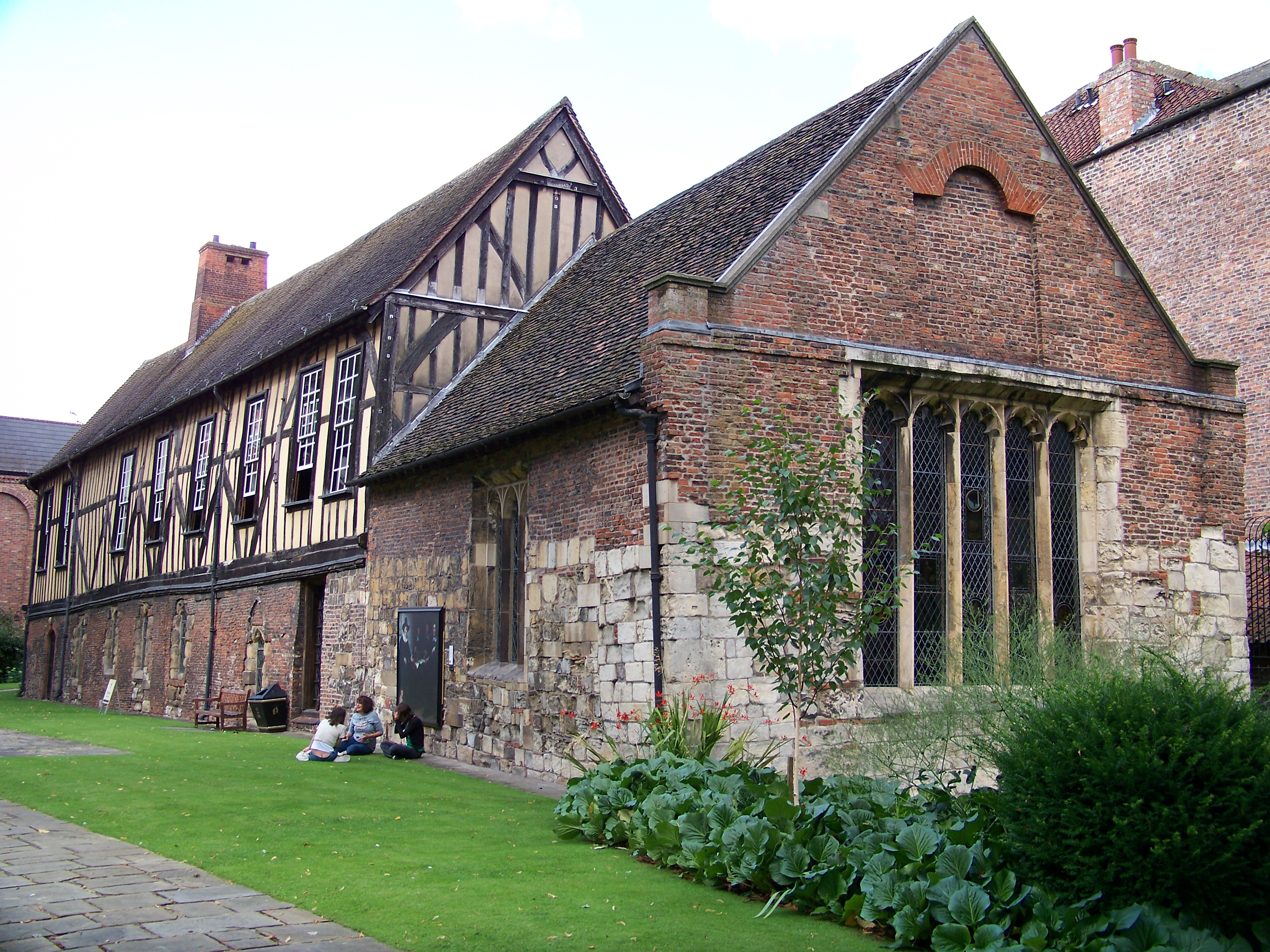 The front of the Merchant Adventurers' Hall, York, England a medieval guild–hall with a timber-framed structure and was completed by 1368.